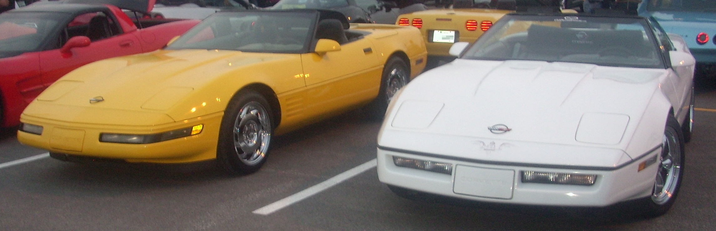 Chevrolet Corvettes photographed in Laval, Quebec, Canada at Centropolis Laval.